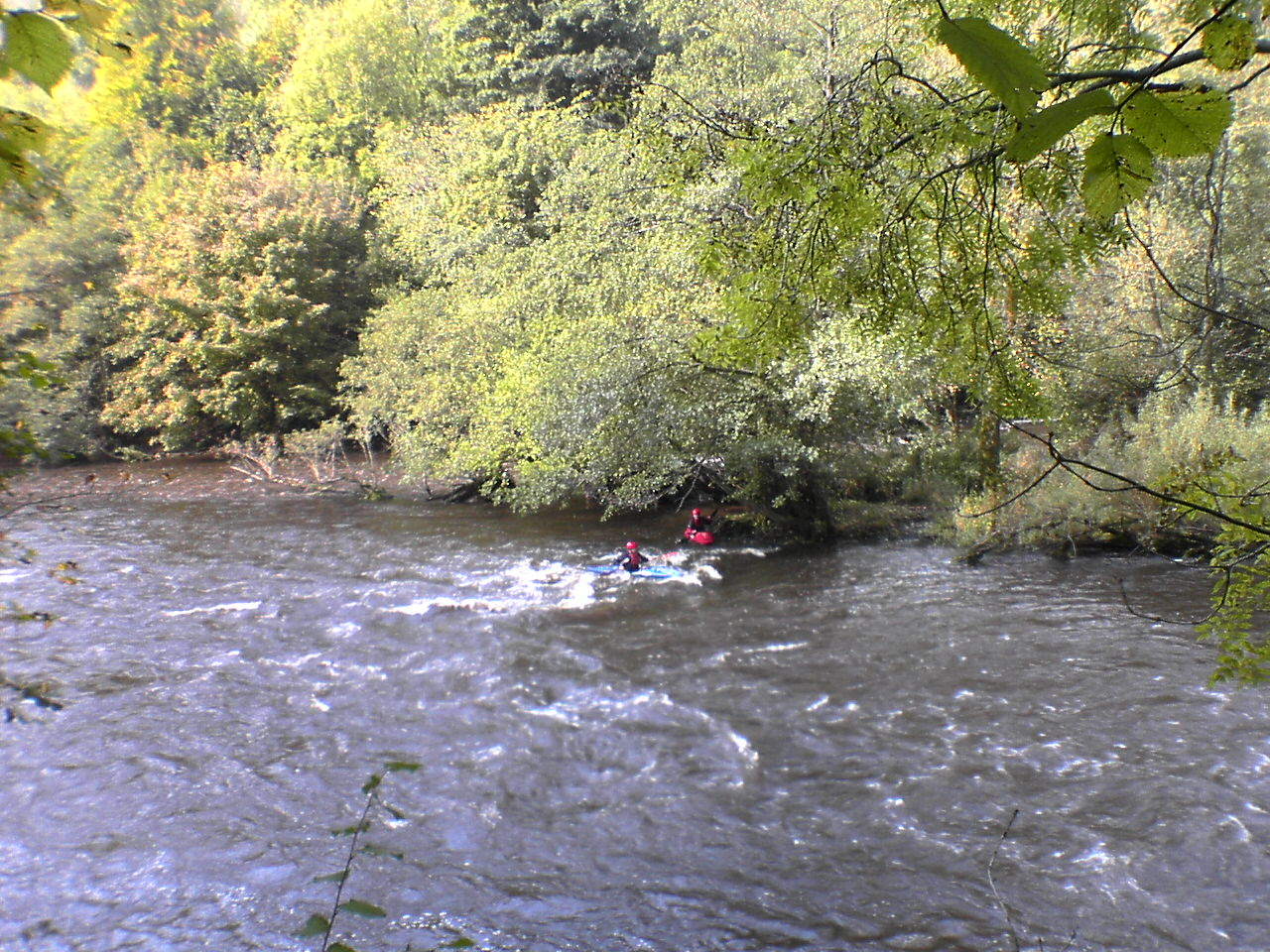 Symonds Yat Rapids bottom wave, Jamsta 21:09, 13 November 2006 (UTC)